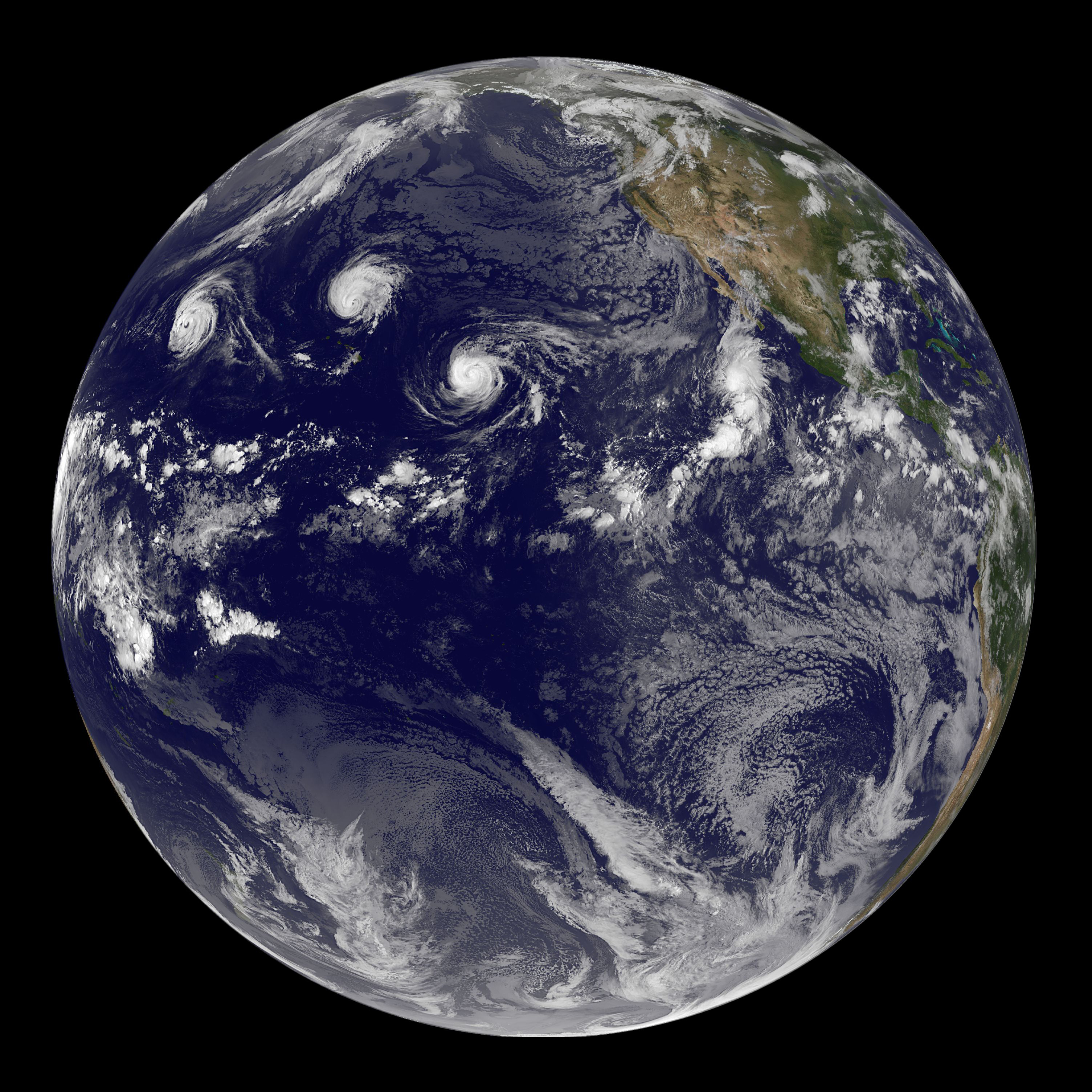 The Geostationary Operational Environmental Satellite 15 (GOES-15) captured this image of one typhoon (Kilo), one hurricane (Jimena), one tropical storm (Ignacio), and one tropical depression (Fourteen E) churning simultaneously in the Pacific Ocean at 15:00 Universal Time on September 2, 2015. All of these storms are tropical cyclones at various stages of maturity. None of them currently threaten land. Earlier this week, the three stronger storms (Kilo, Jimena, and Ignacio) made history as they paraded across the Pacific Ocean at Category 4 strength. The ongoing El Niño—a complex weather pattern characterized by warm sea surface temperatures in the central and east-central Pacific—is encouraging tropical cyclone development in the Pacific basin even as it inhibits storms in the Atlantic basin.